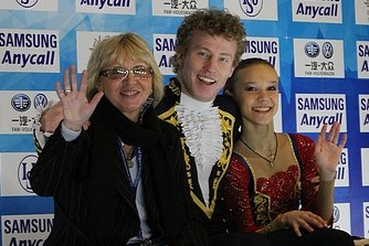 Lyubov Iliushechkina and Nodari Maisuradze with their coache Natalia Pavlova at the Cup of China 2010